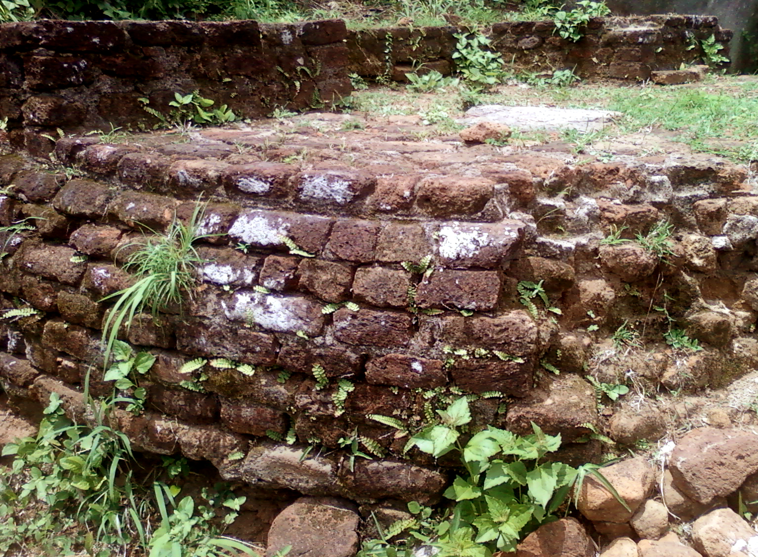 Buddhist Remnants at Gurubhaktulakonda in Ramatheertham, Vizianagaram district